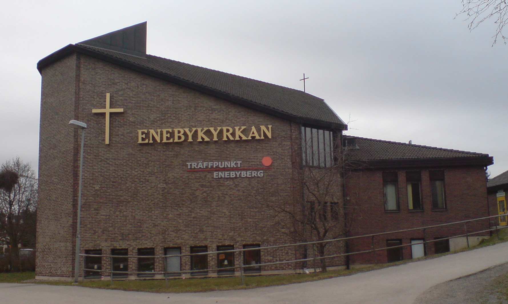 The church in Enebyberg, Danderyds, Sweden